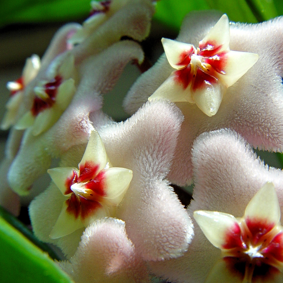 A closeup of an unidentified Hoya flower.